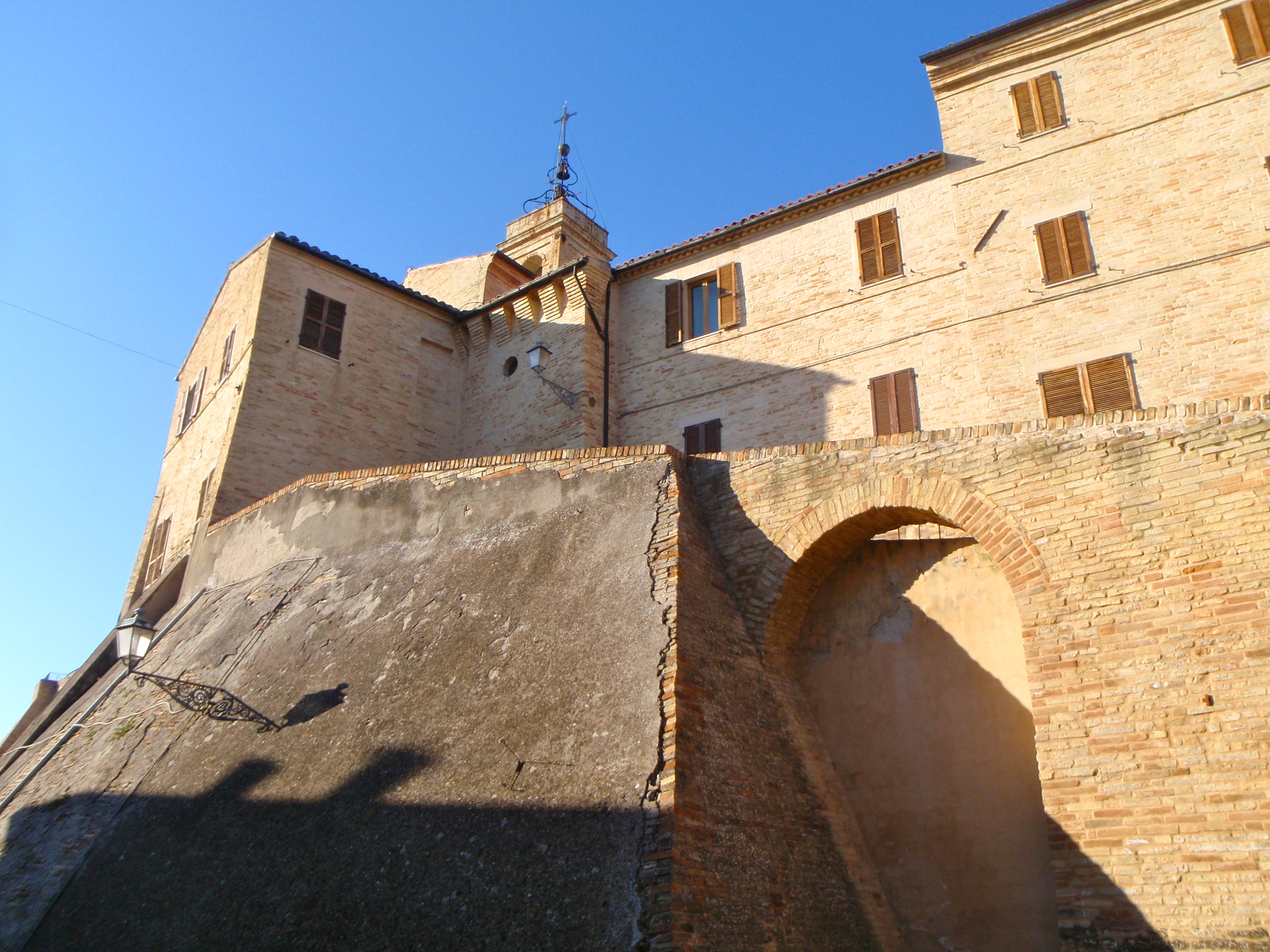 The wall of Torre San Patrizio, Marche.